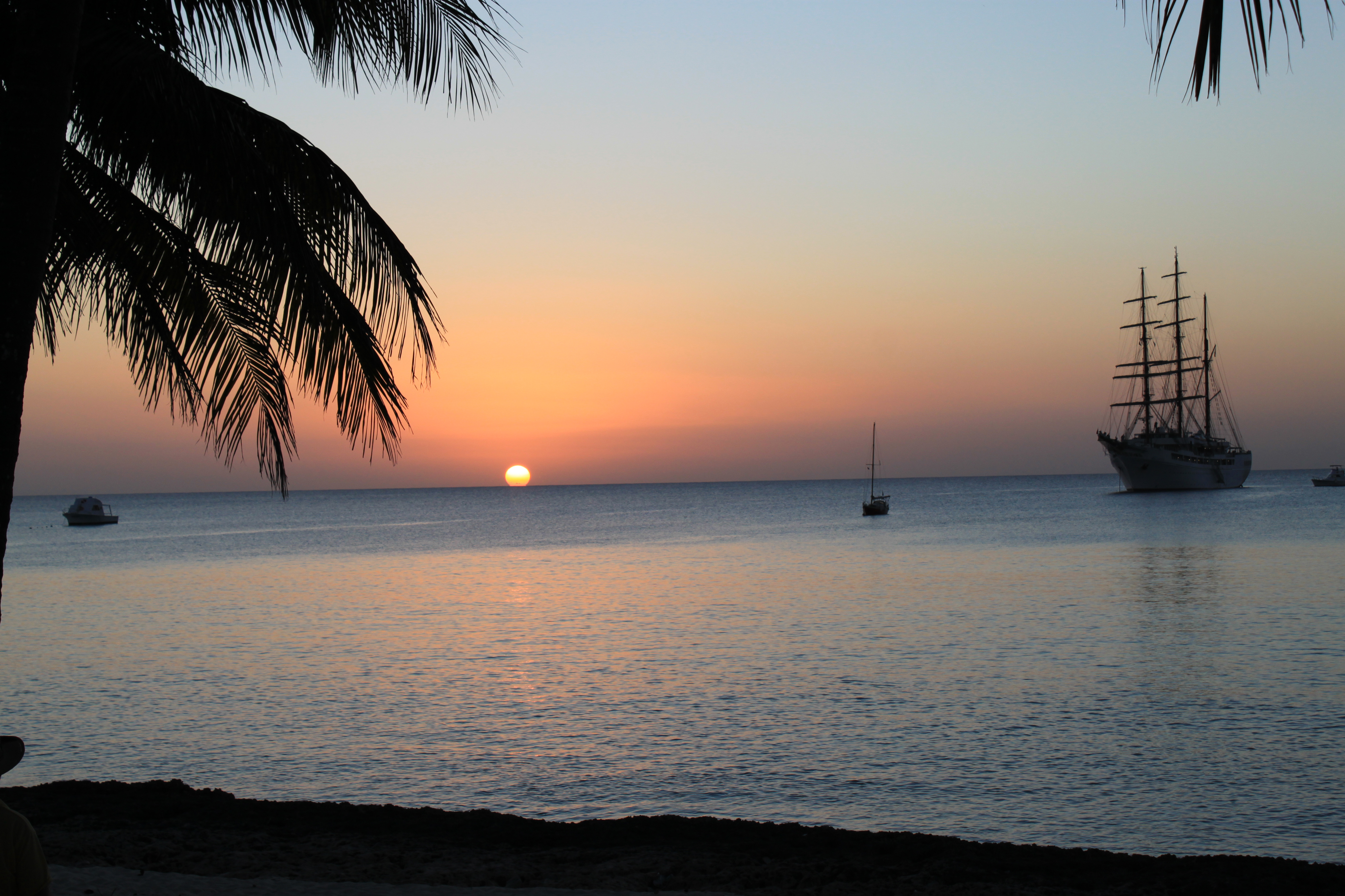 Maria La Gorda in Sandino municipality, Pinar del Rio Province, Cuba